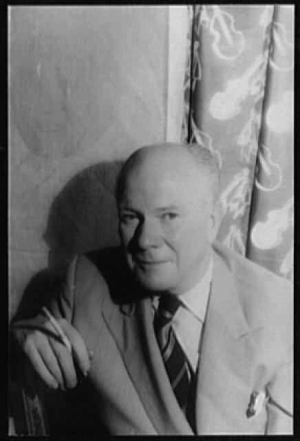 Title: Portrait of Vincent Sheean Abstract/medium: 1 photographic print : gelatin silver.